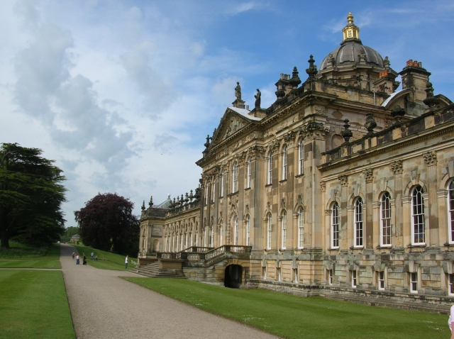 South face of Castle Howard